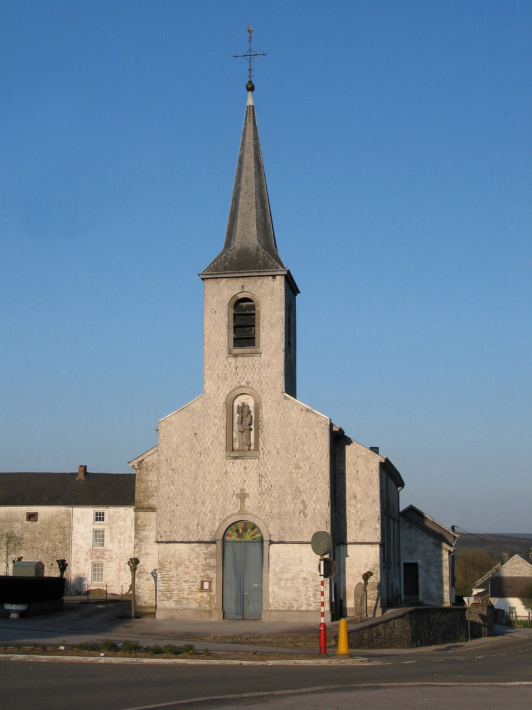 Maissin (Belgium), the church of Saint Hadelin (1855-1856).